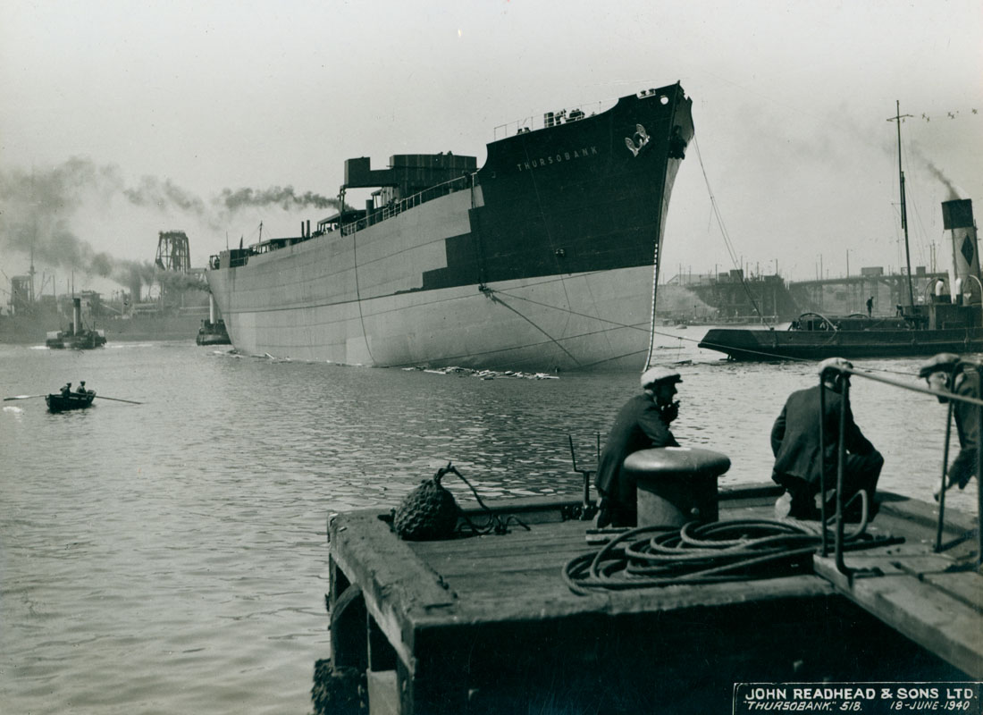 View of the cargo ship ‘Thursobank’ after launch at the shipyard of John Readhead & Sons Ltd, South Shields, 18 June 1940 (TWAM ref. DS.RDD/4/PH/1/518/1). This set celebrates the achievements of the shipyard of John Readhead & Sons. The firm has played a significant role in the North East’s illustrious shipbuilding history and the development of South Shields. The company began in 1865 when John Readhead, a shipyard manager, entered into business with J Softley at a small yard on the Lawe at South Shields. Following the dissolution of the partnership in 1872, it continued as John Readhead & Co on the same site until 1880 when the High West Yard was purchased. After Readhead’s four sons were taken into the business in 1888 the company traded as John Readhead & Sons becoming a limited company in 1908. In 1968 the company was absorbed by the Swan Hunter Group and in 1977 became part of the nationalised British Shipbuilders. In the same year the last vessel was launched and the site was sold off in 1984. Readheads was prolific and built over 600 ships from 1865 to 1968, including 87 vessels for the Hain Steamship Company Ltd and over forty for the Strick Line Ltd. The shipyard also built four ships for the Prince Line, founded by Sir James Knott. The firm built vessels, which were involved in the major conflicts of the Twentieth Century. During the First World War they built patrol vessels and ‘x’ lighters (motor landing craft used in the Gallipoli campaign) for the Admiralty. During the Second World War the firm built tankers for the Normandy Landings. (Copyright) We're happy for you to share this digital image within the spirit of The Commons. Please cite 'Tyne & Wear Archives & Museums' when reusing. Certain restrictions on high quality reproductions and commercial use of the original physical version apply though; if you're unsure please .